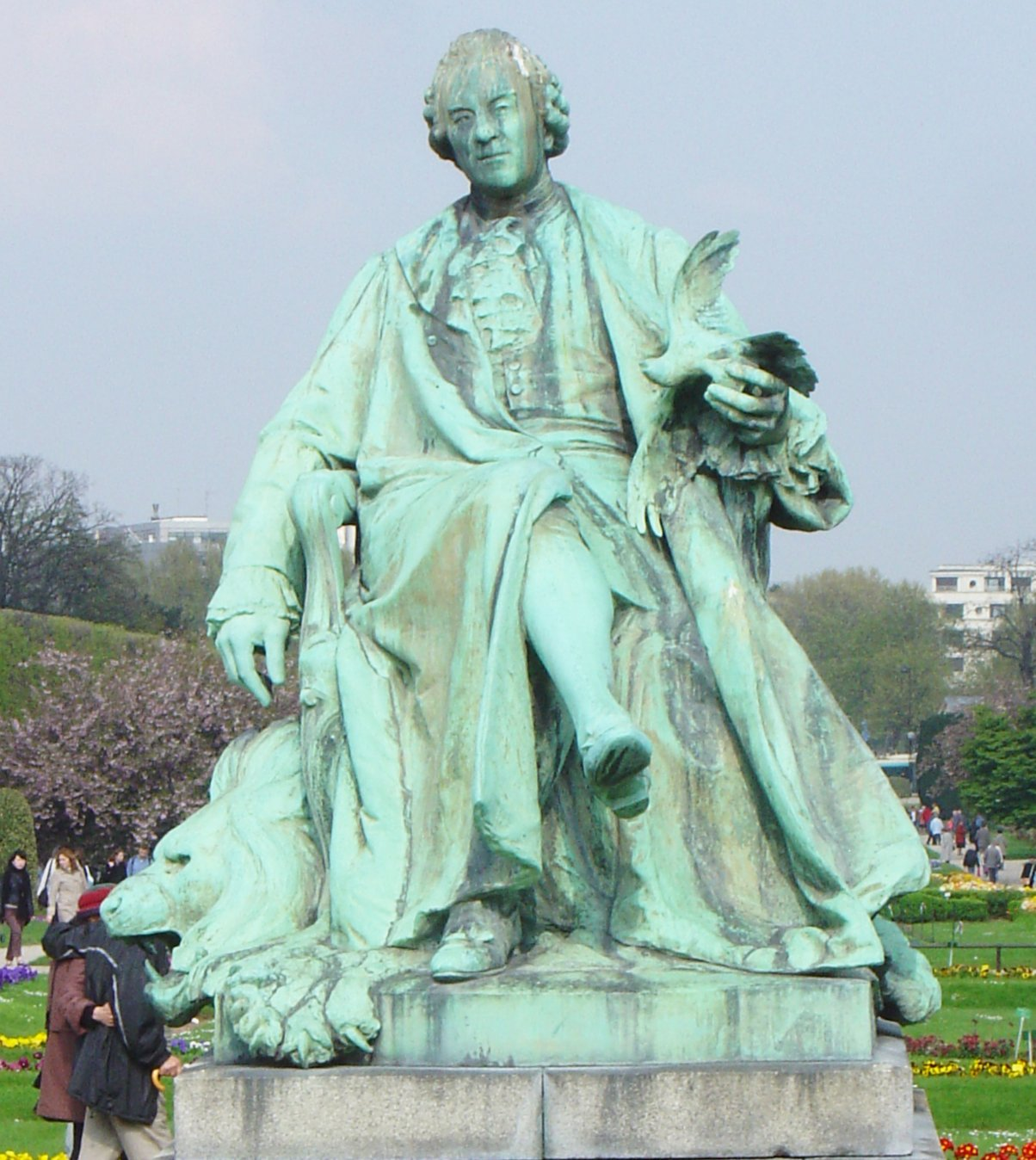 Bronze statue of French naturalist Georges-Louis Leclerc, comte de Buffon (1707–1788), by Jean Carlus (French, 1852–1930), 1908. Jardin des Plantes, Paris.